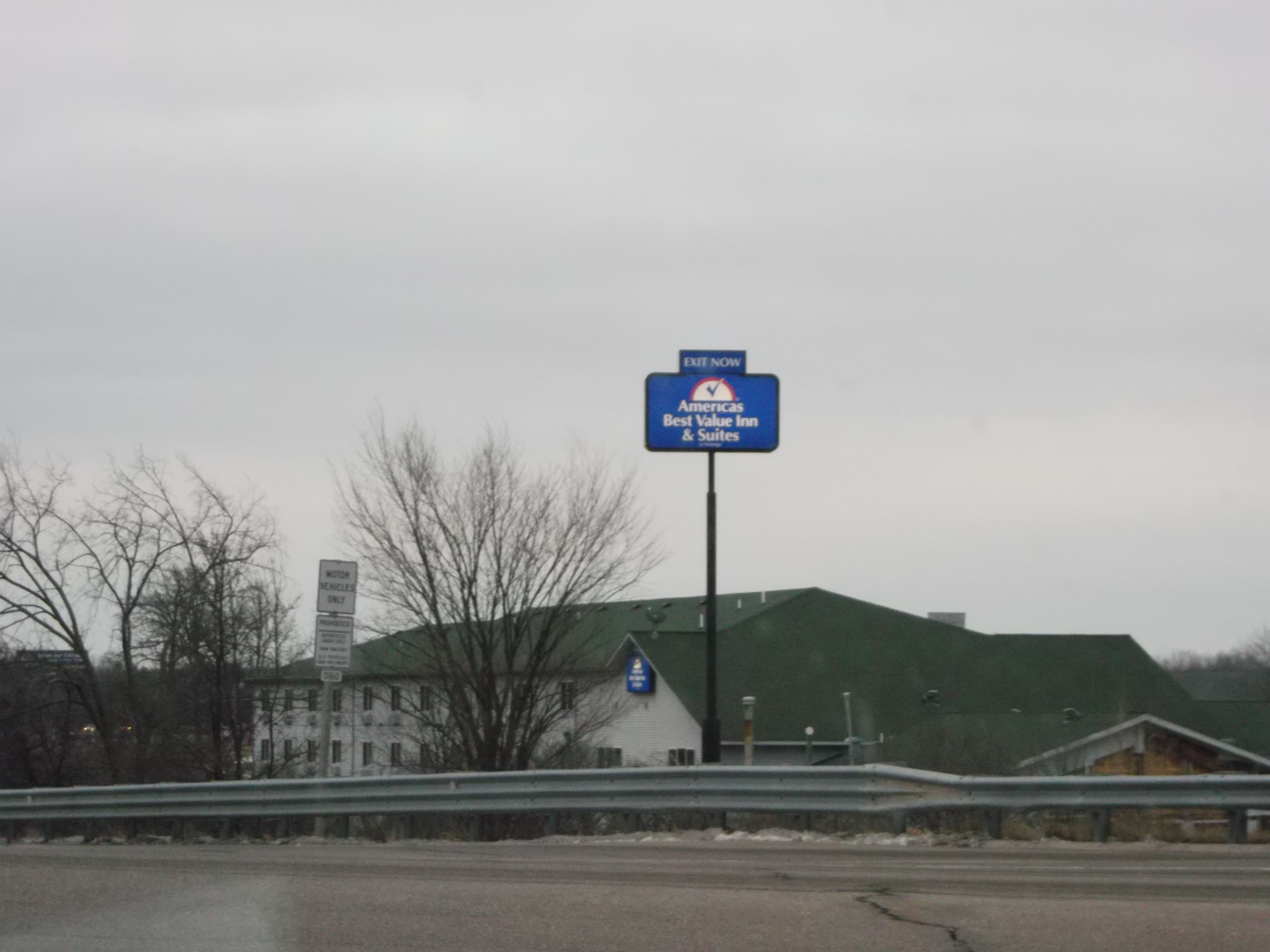 Best Value Inn in Flint, formerly AmericInn